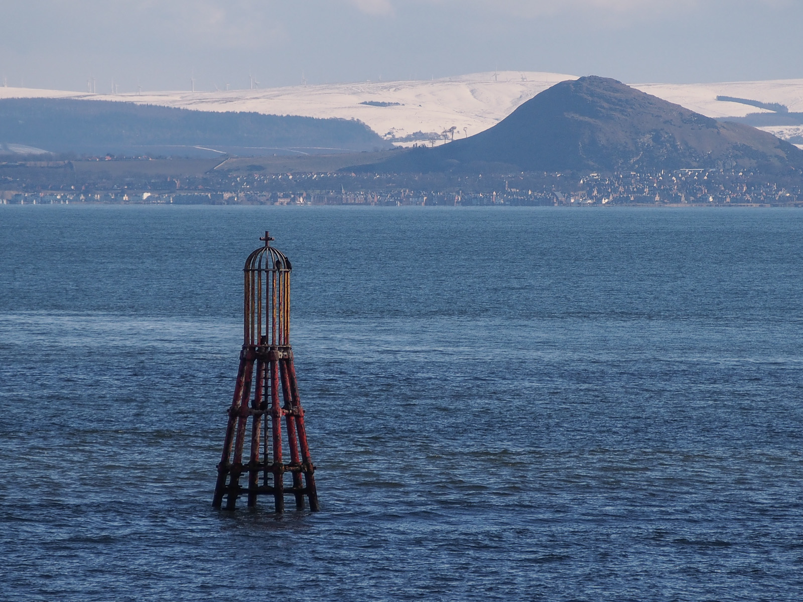 East Vows beacon